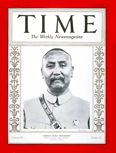 Time magazine, May 19, 1930. The cover shows Yen Hsi-shan (Yan Xishan).